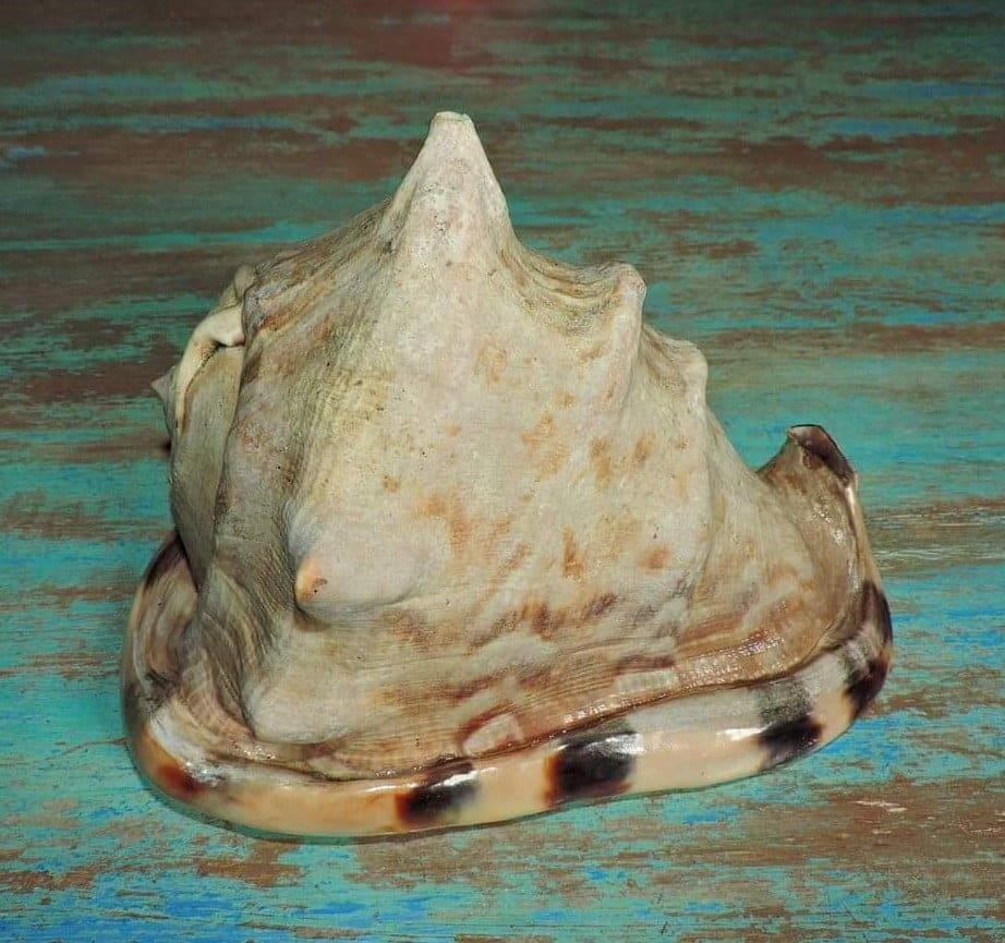 The side view of the shell of marine snail Cassis tuberosa (Linnaeus, 1758)[1].